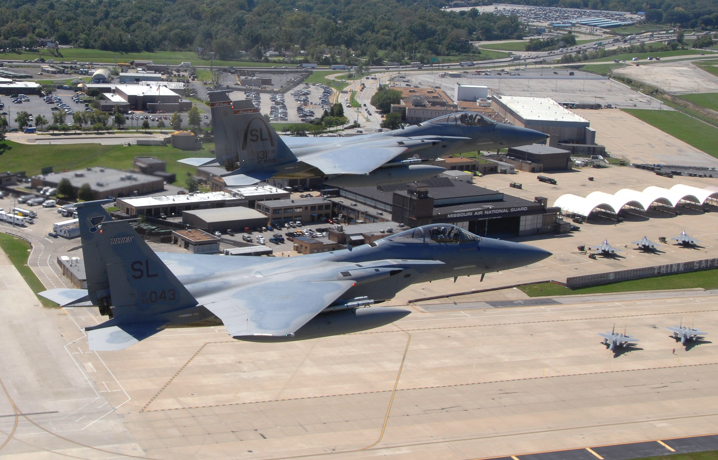 Two U.S. Air Force McDonnell Douglas F-15C Eagle fighters (s/n 80-0043, 81-0025) from the 110th Fighter Squadron, 131st Fighter Wing, Missouri Air National Guard, in flight over their home base at Lambert-St. Louis International Airport, St. Louis, Missouri (USA).